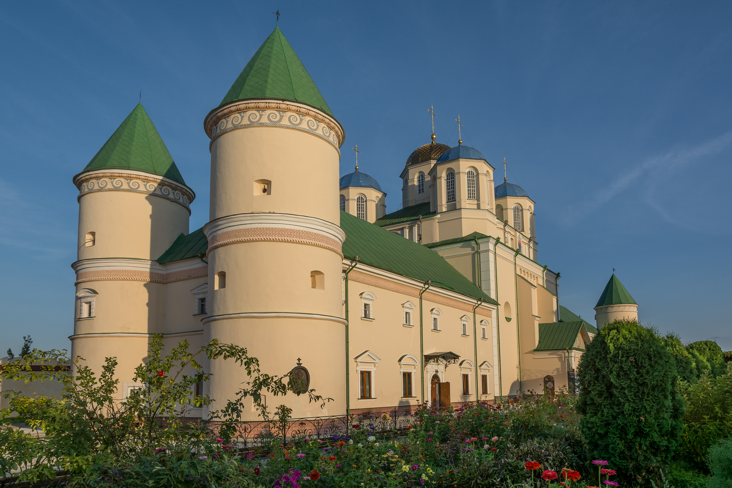 Holy Trinity Monastery in Mezhyrich, Rivne Oblast, Ukraine